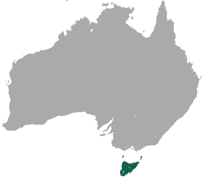 Tasmanian Pademelon (Thylogale billardierii) range